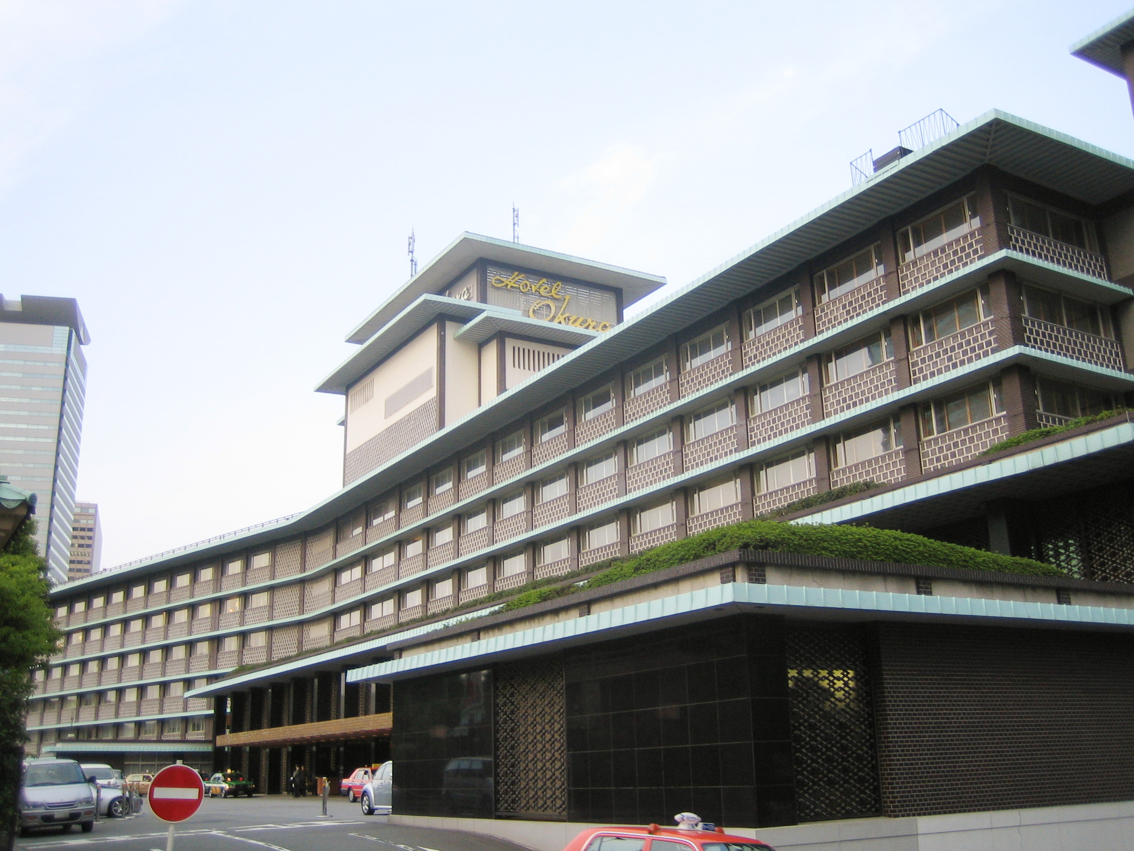 Hotel Okura (ホテルオークラ), in Minato, Tokyo, Japan